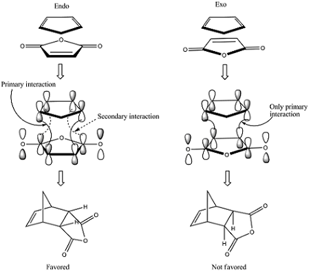 The primary and secondary interactions of maleic anhydride and cyclopentadiene in their Diels-Alder cycloaddition, showing why the endo reaction is faster.